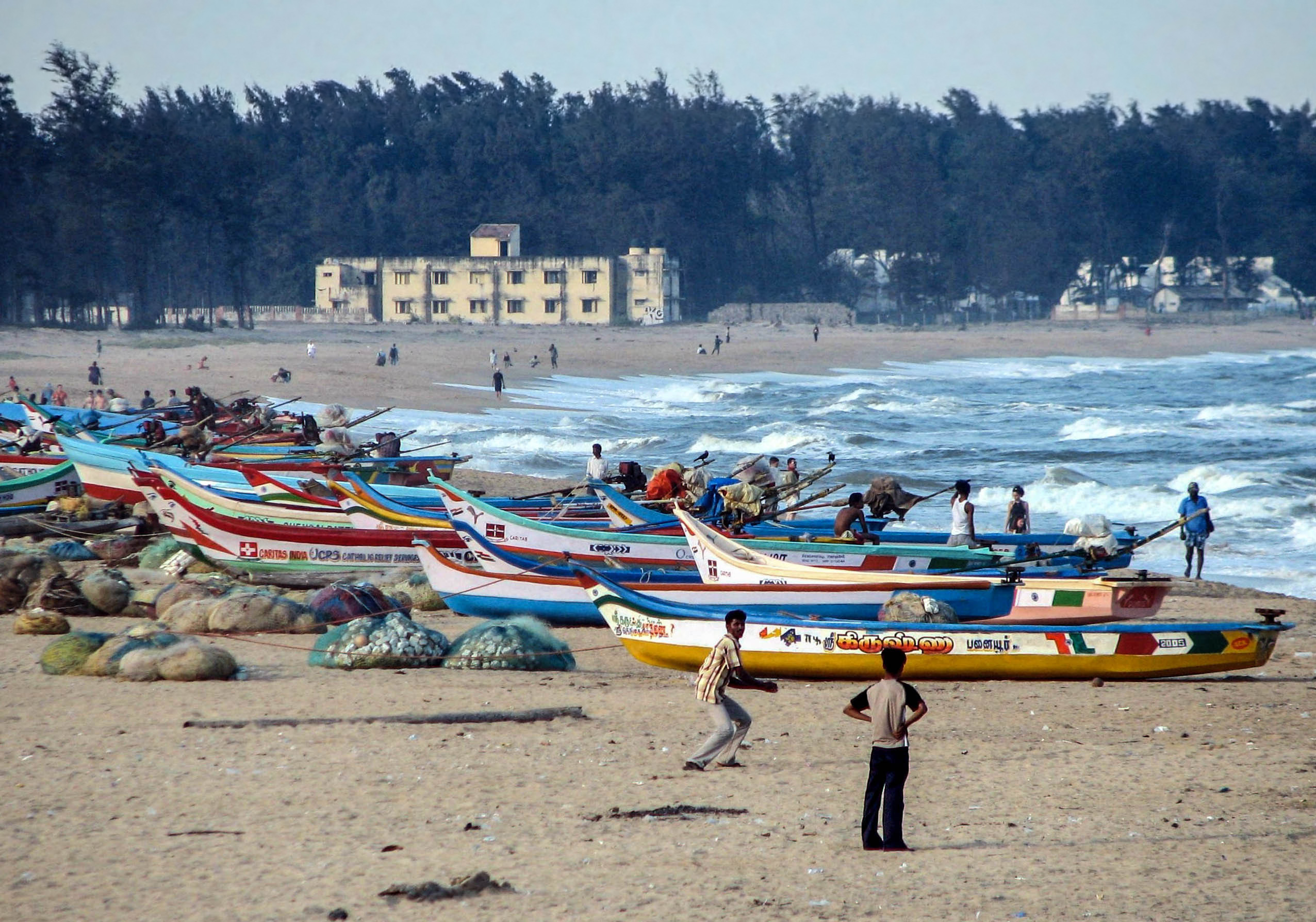 Fish boats, Mahabalipuram, India